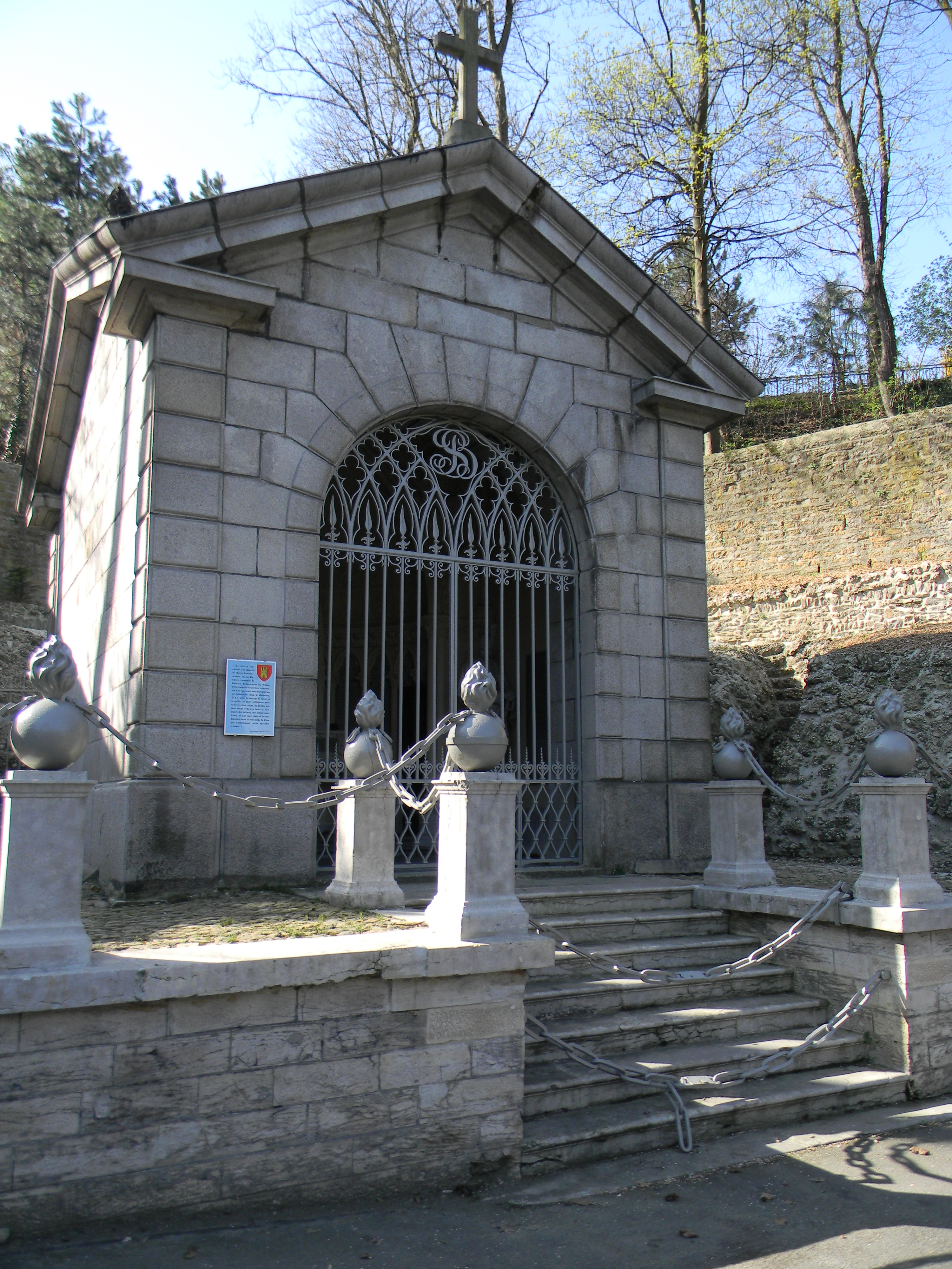 Tomb of the Castellane Marechal in Caluire-et-Cuire